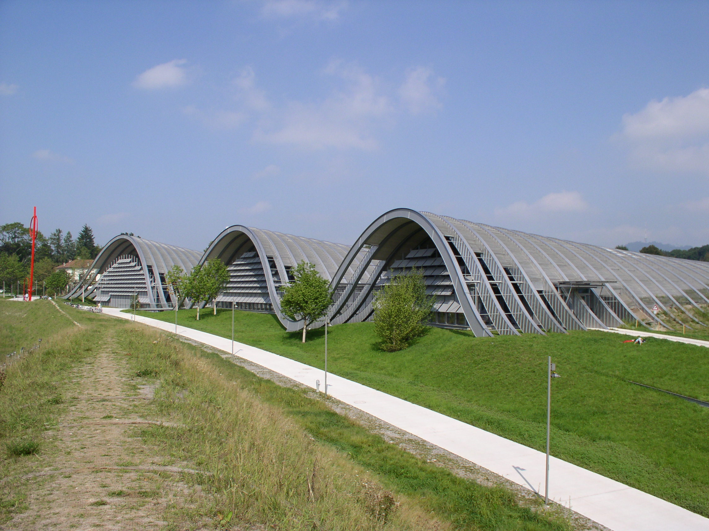 Description: Gesamtansicht des "Zentrum Paul Klee" in Bern Source: photo taken by me, September 2005 Photographer: Baikonur